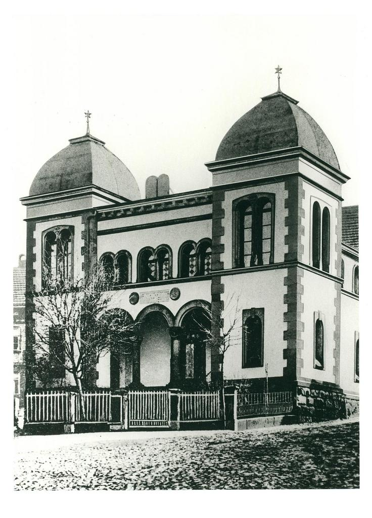 Synagogue of Tann (Land of Hesse - Germany), built in 1880 and destroyed in 1938.